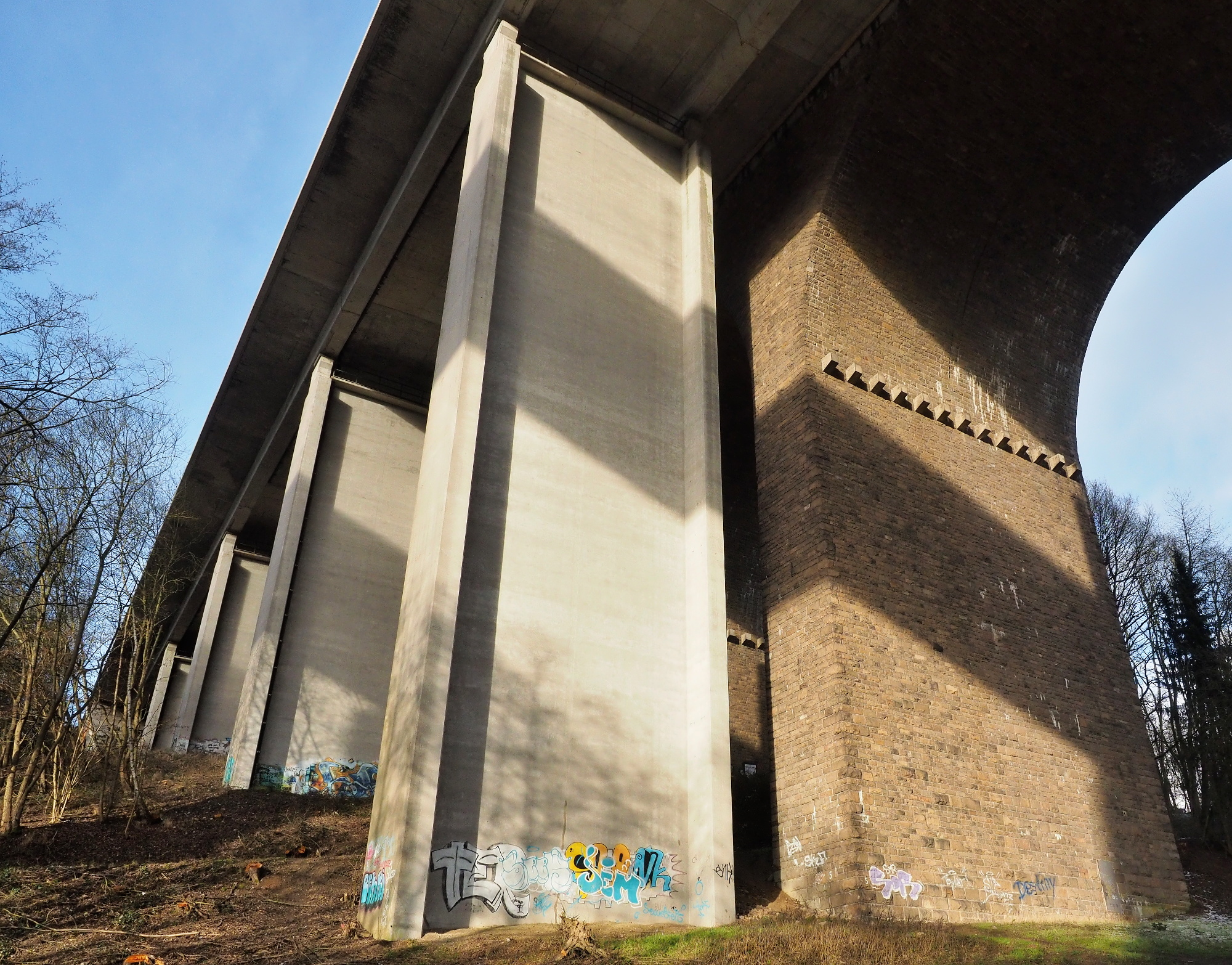 The two halves of the Theißtal motorway bridge